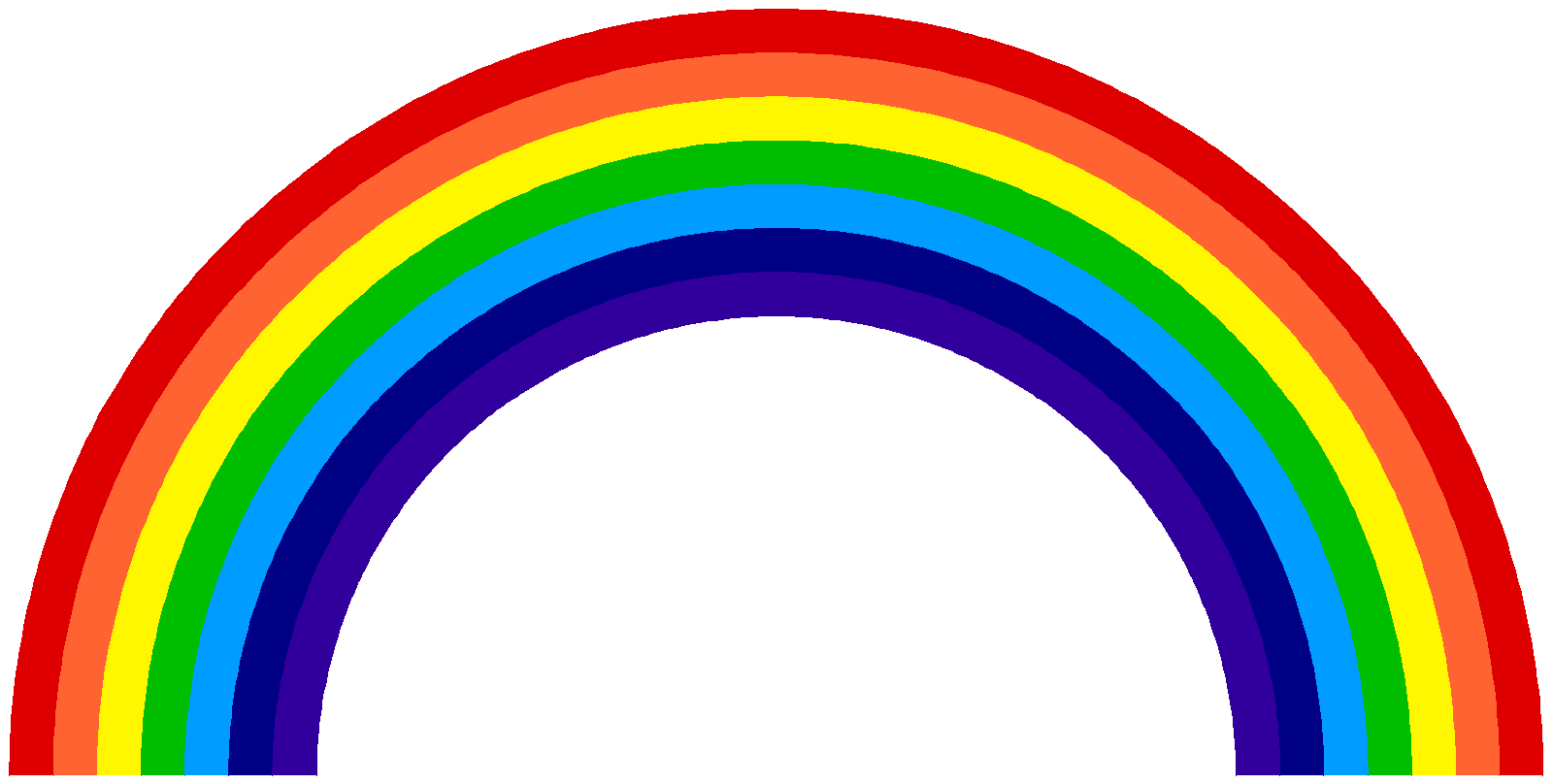 Rainbow diagram showing the conventional arrangement of colours: Red Orange Yellow Green Blue Indigo and Violet. The colours shown do not necessarily correspond to actual wavelengths.